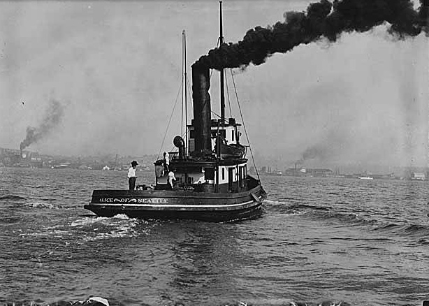 Photograph of Alice, a steam tug built in 1897. University of Washington Digital Archives collection, Image 1159-1] . Credit line required in all uses of this image: Courtesy of Puget Sound Maritime Historical Society. From the Joe Williamson collection of the Puget Sound Maritime Historical Society. UW digital archive identifies "Webster and Stevens" as the photographer. Probably public domain. Published on page 190 of Newell, Gordon R., Pacific Tugboats, Superior Publishing 1957 Seattle. Because this work was published before 1964, renewal of the copyright was required in the 28th year following publication to prevent the work from becoming public domain. Uploader has searched the on-line records of the U.S. copyright office and found no record of any renewal of this work under the names of either author or of the publisher., of the Joe Williamson collection from which the images in the book were drawn, or of Webster and Stevens.